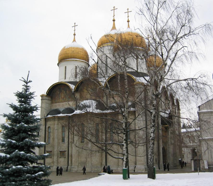 Uspensky Sobor, Moscow, winter